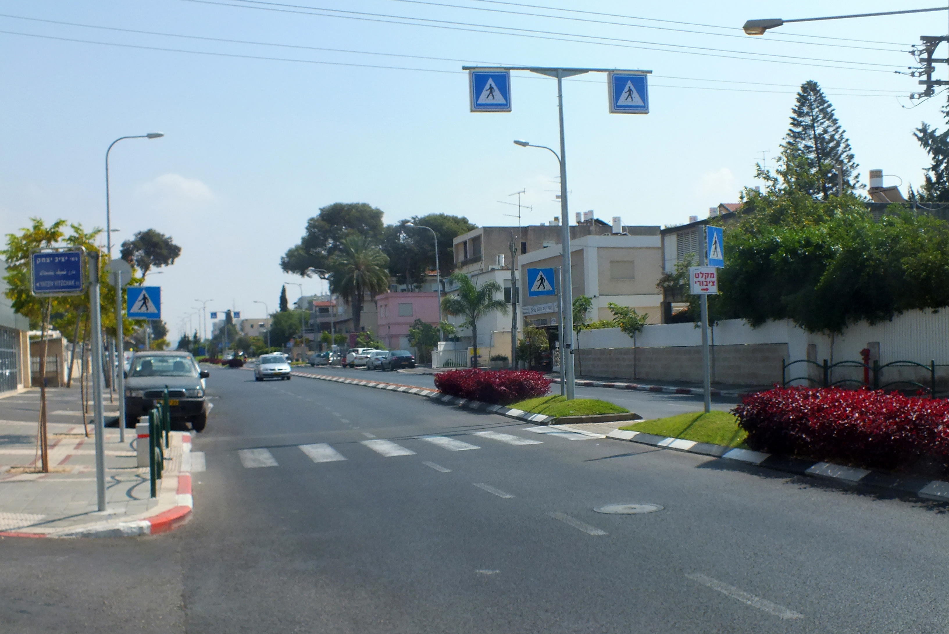 Ahi Eilat Avenue is the main street of K. Hayim.